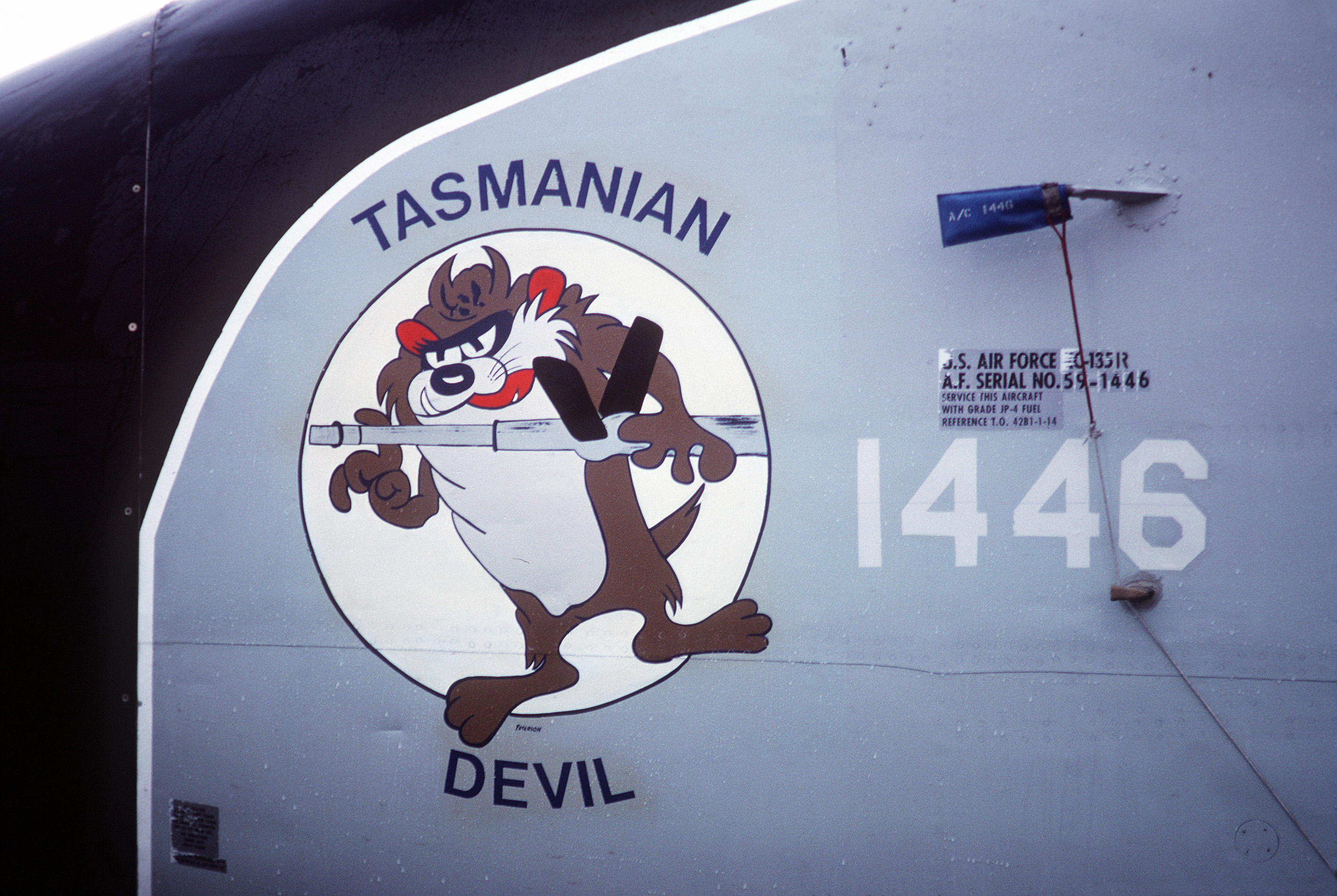 Nose art with the "Tasmanian Devil" Warner Brothers cartoon character decorates an American KC-135R Stratotanker aircraft located at Ellsworth Air Force Base, South Dakota.